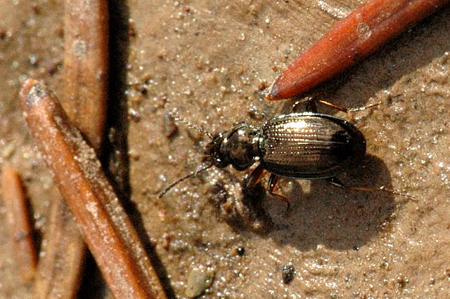 Picture taken in Commanster, Belgian High Ardennes . Species: Metallina lampros